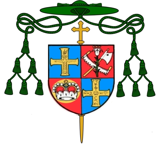 Coat of arms of Josef Vrana, Titular Bishop of Octabia and Apostolic Administrator of Olomouc 1973-1987